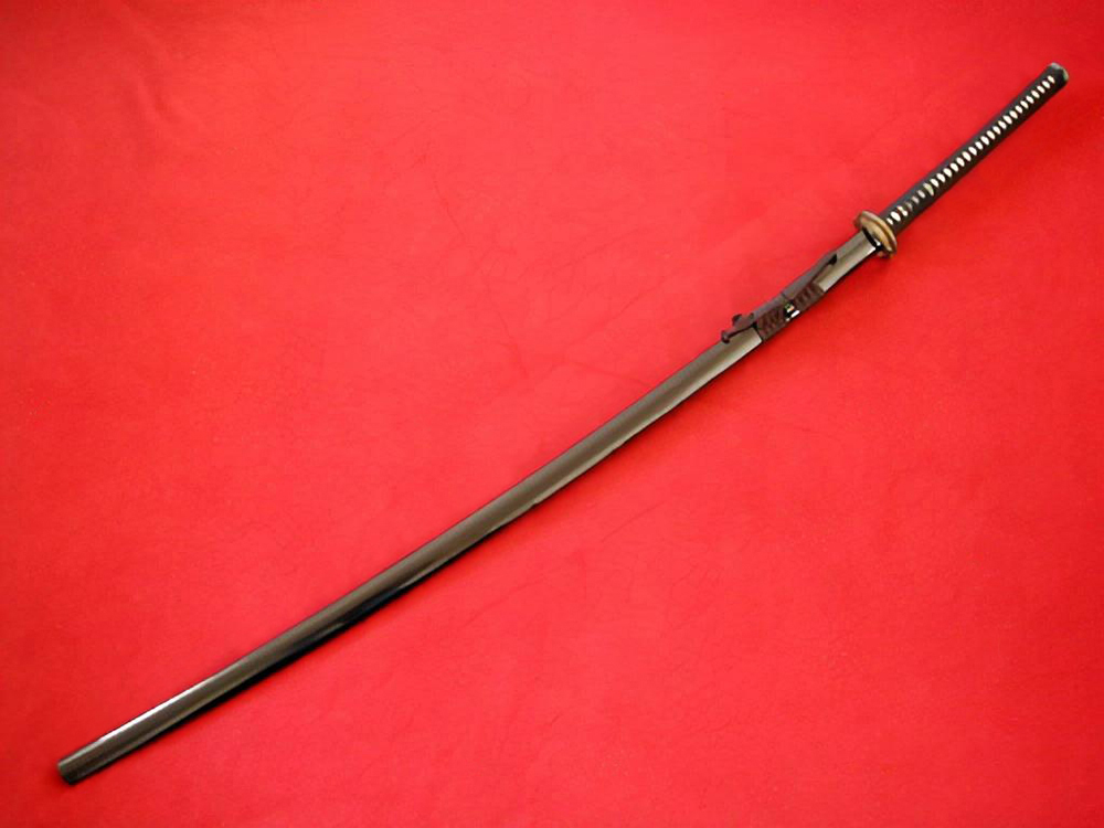 Nodachi, a rare Sword from Japan